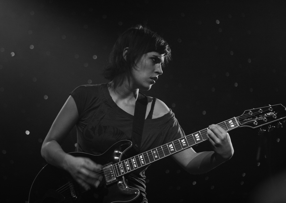 Kaki King live at Webster Hall, NYC 2008 - Photo by Faith-Ann Young